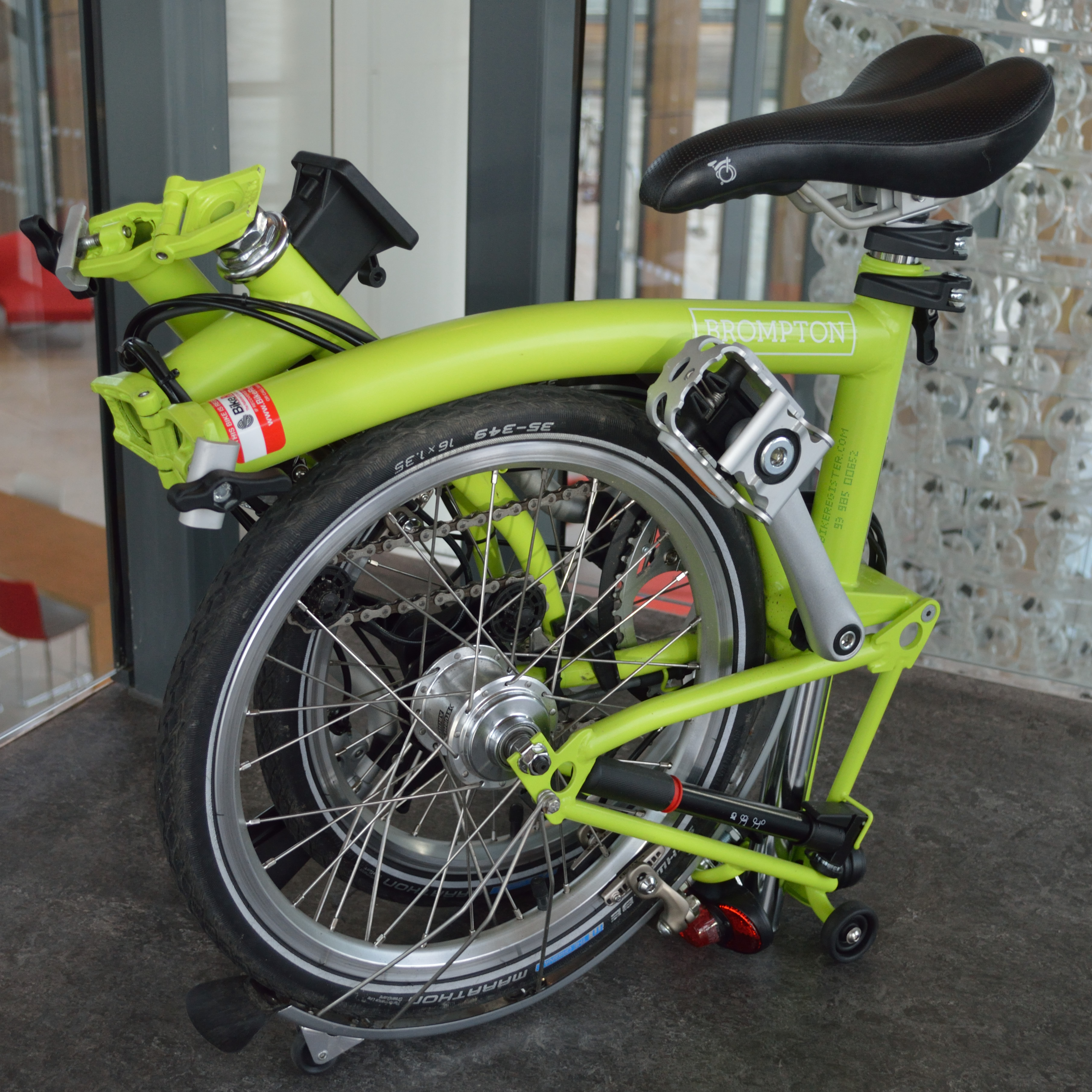 Shared use folded Brompton bicycle on the tenant-only mezzanine in the Forum at the Bristol and Bath Science Park.